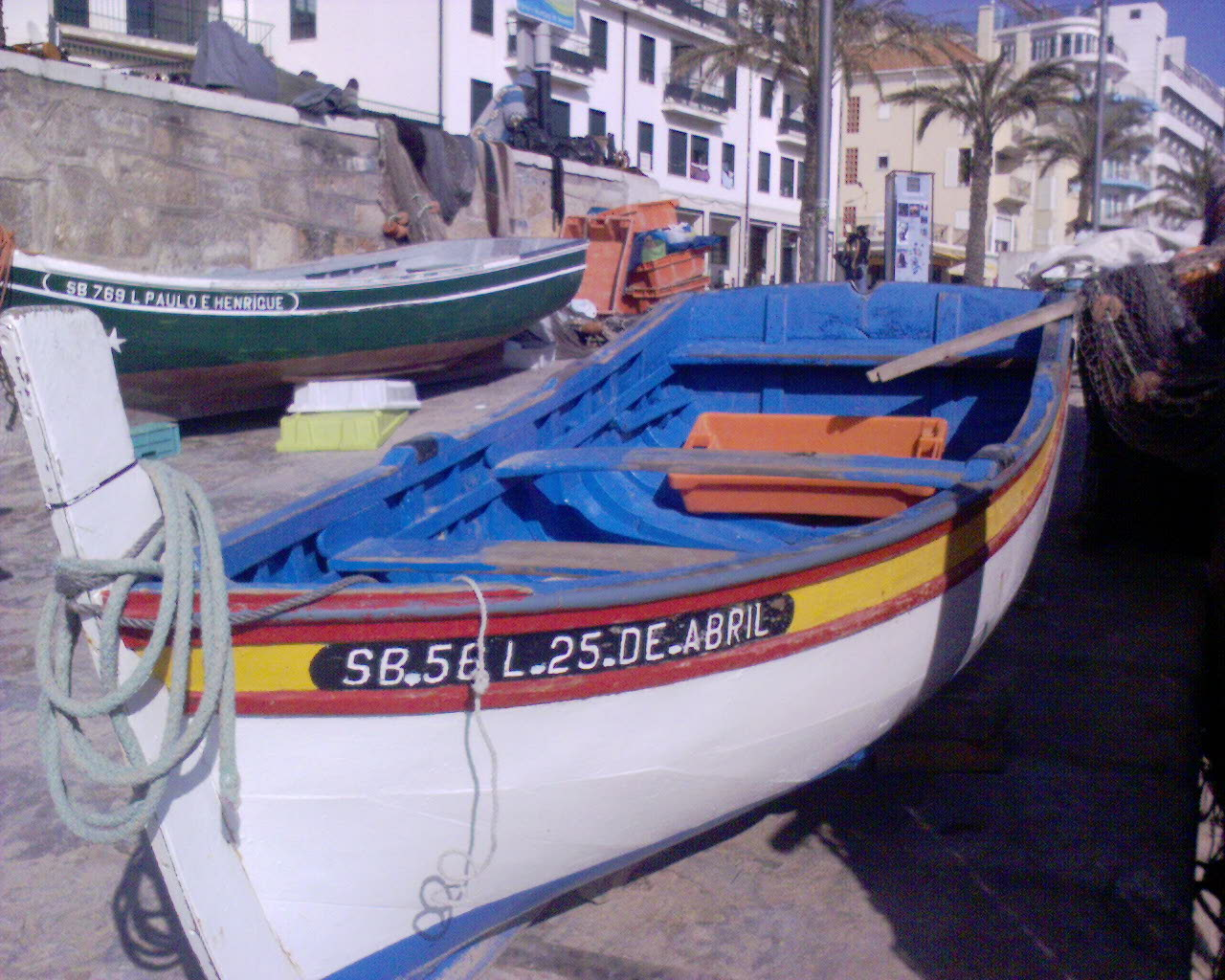 Two aiolas at the ramp im Sesimbra